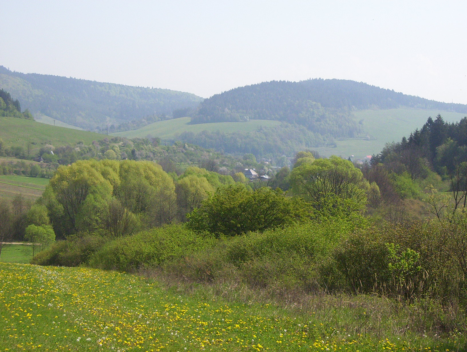 View on Village Jasenica